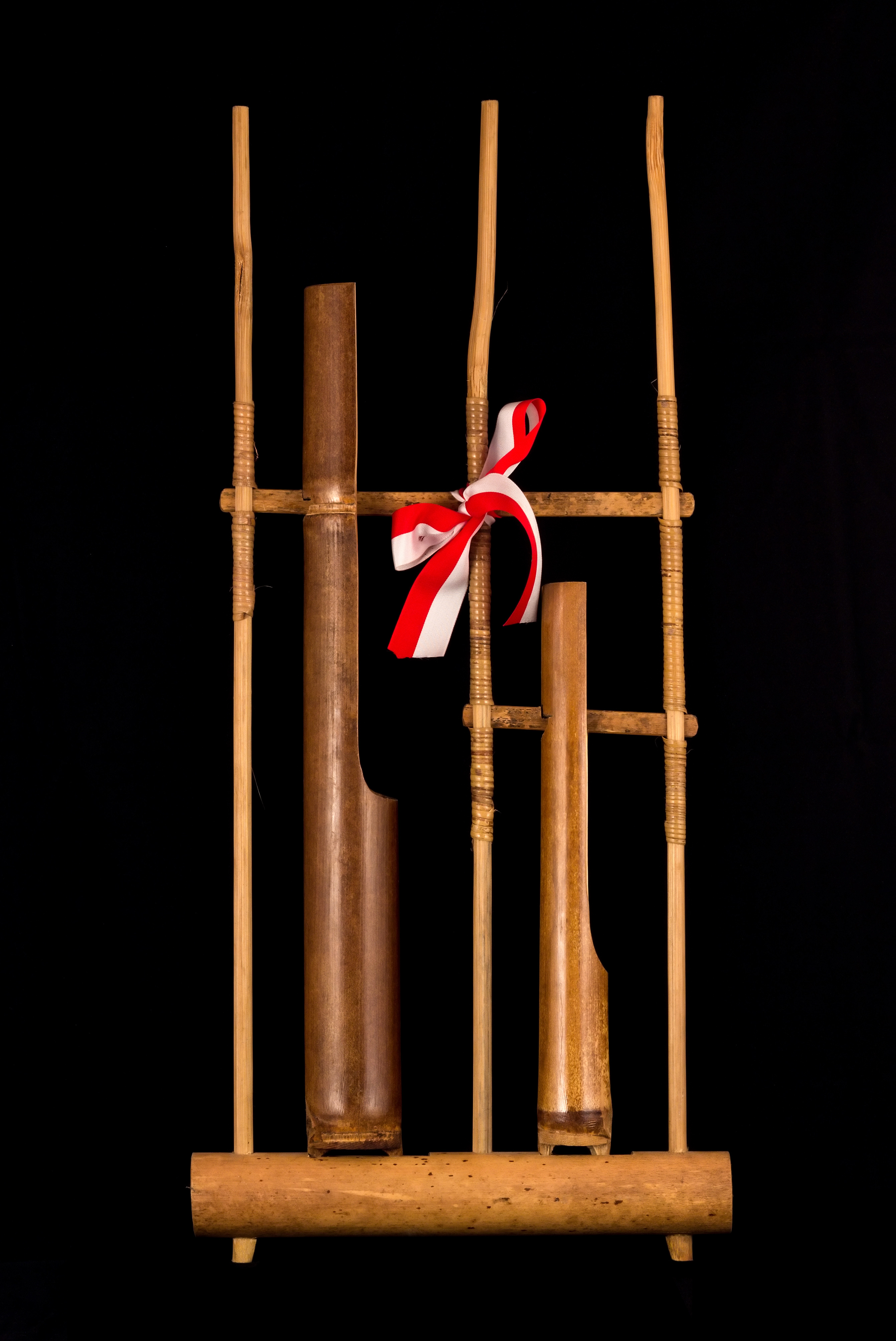 Single note angklung ('G'), 2015-05-21. Purchased from Angklung Udjo in Bandung. Such instruments are used by angklung orchestras (which can consist of dozens of members). Each section (with the same note) shakes their angklung in unison.